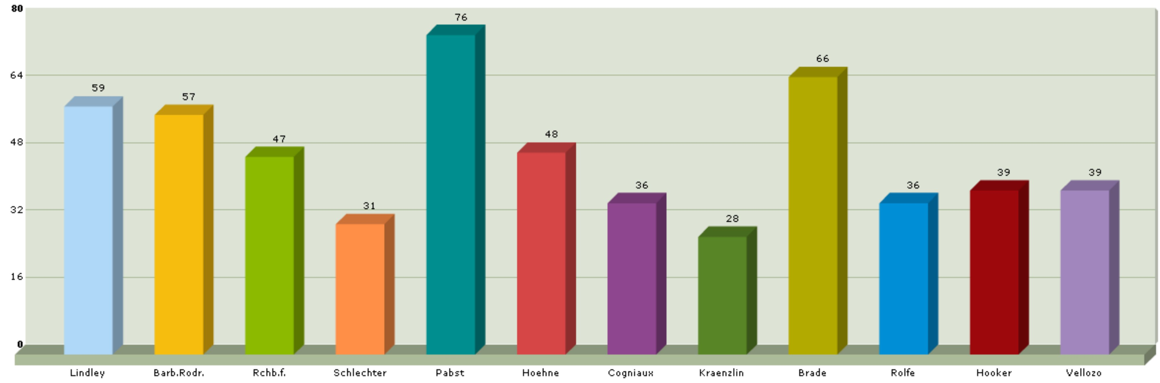 Percentage of publications still acceptetd of the total number of publications of orchids of Brasil by author.